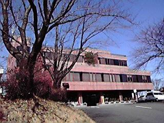 These are buildings of Tsukuba city hall Sakura branch(Japan) .